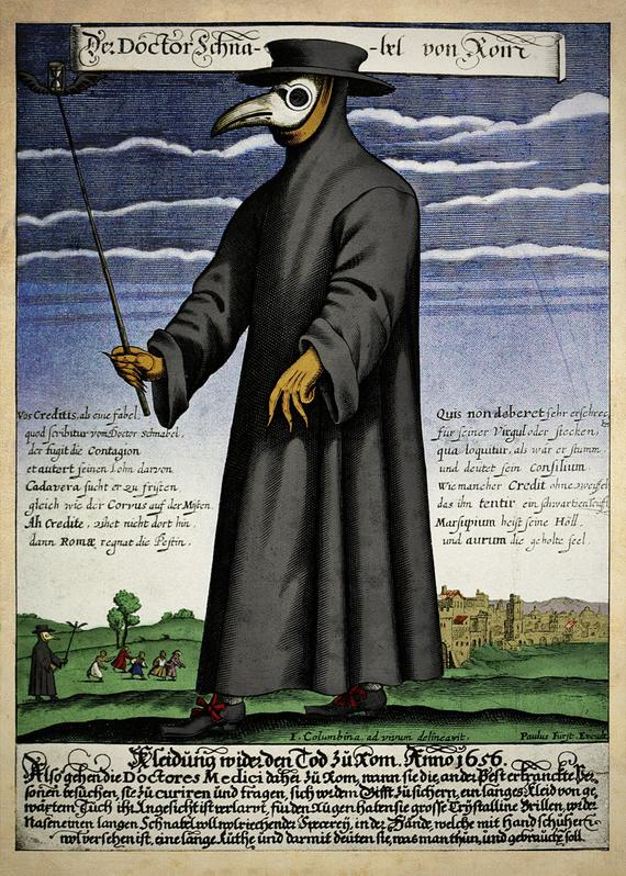 Description: Copper engraving of Doctor Schnabel [i.e Dr. Beak], a plague doctor in seventeenth-century Rome, with a satirical macaronic poem (‘Vos Creditis, als eine Fabel, / quod scribitur vom Doctor Schnabel’) in octosyllabic rhyming couplets.